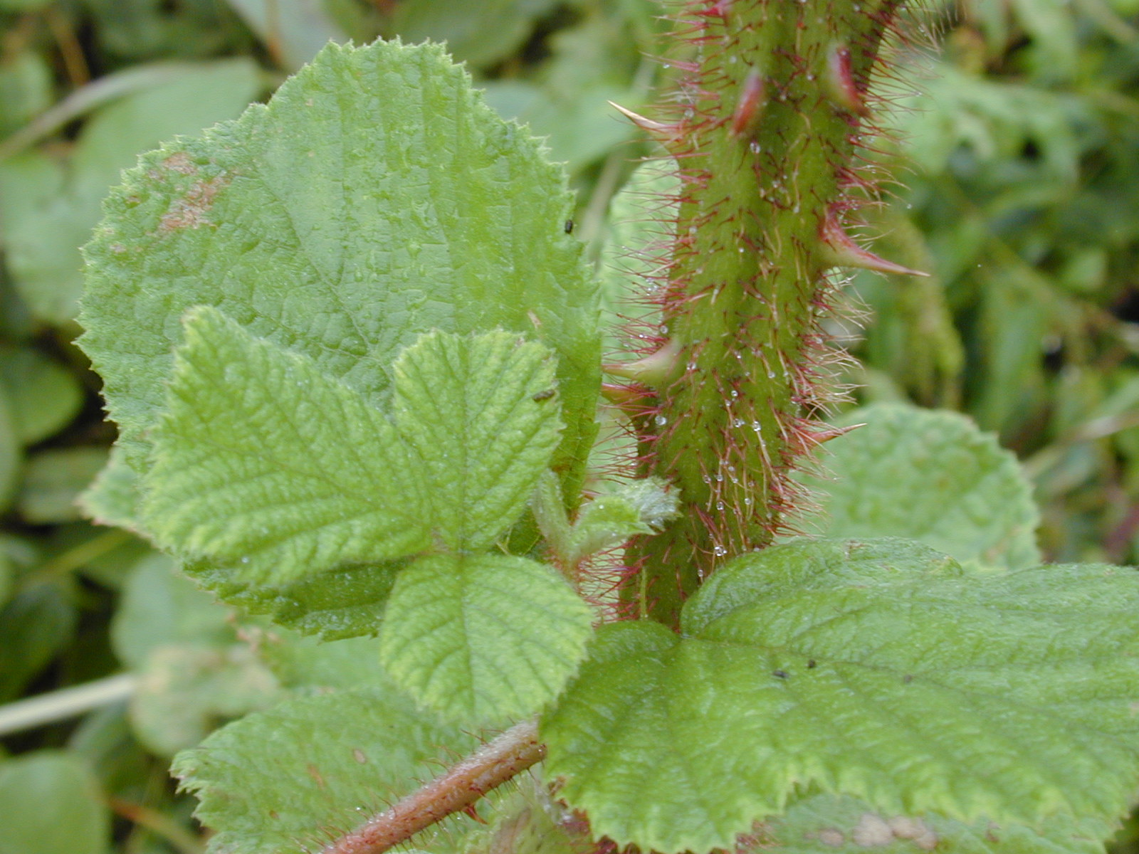 Rubus ellipticus (thorns and leaves). Location: Maui, Hwy11 Hawaii